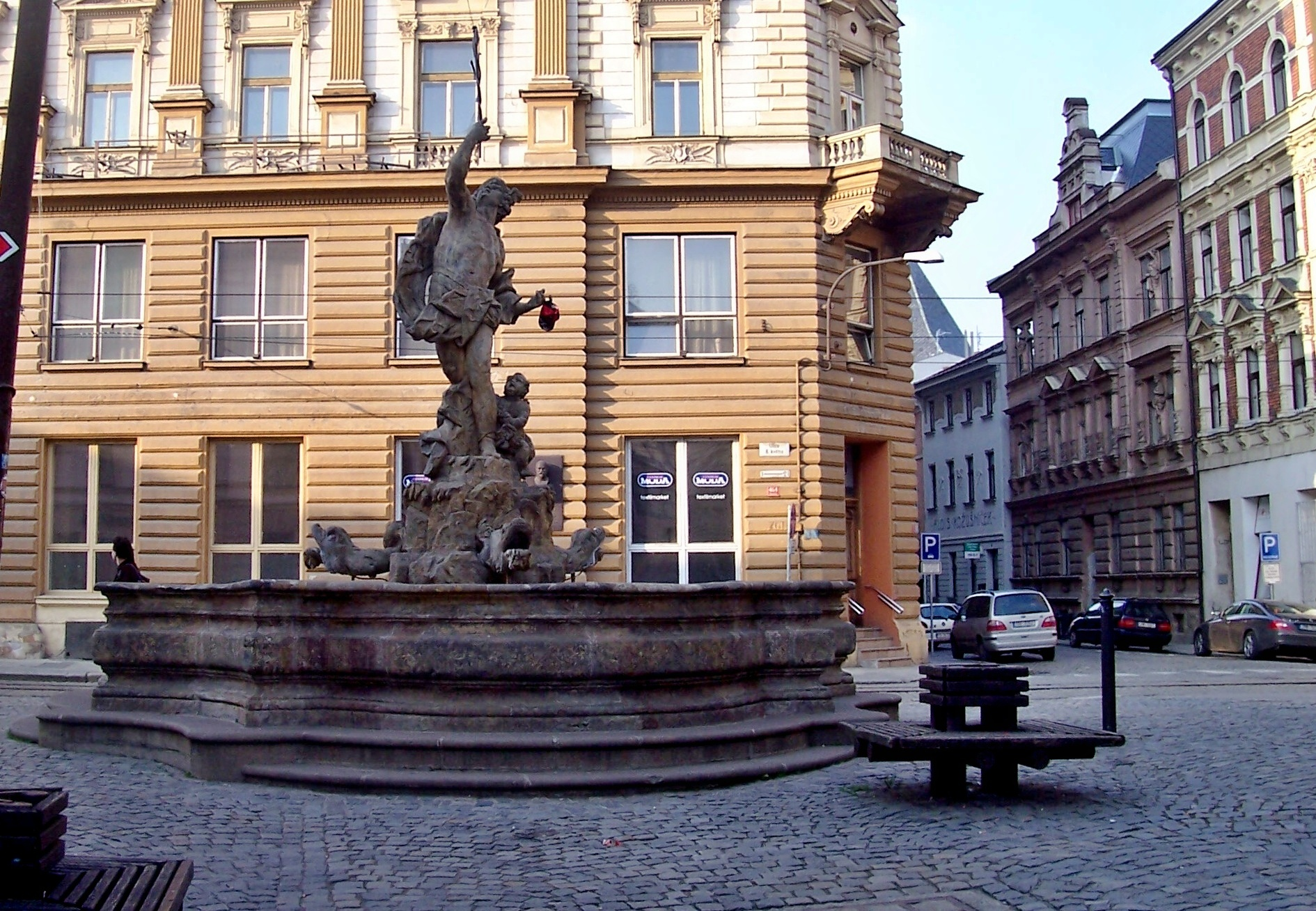 Olomouc, Czech Republic. Junction of streets 8. května, 28. října and Slovenská with Mercury Baroque fountain.